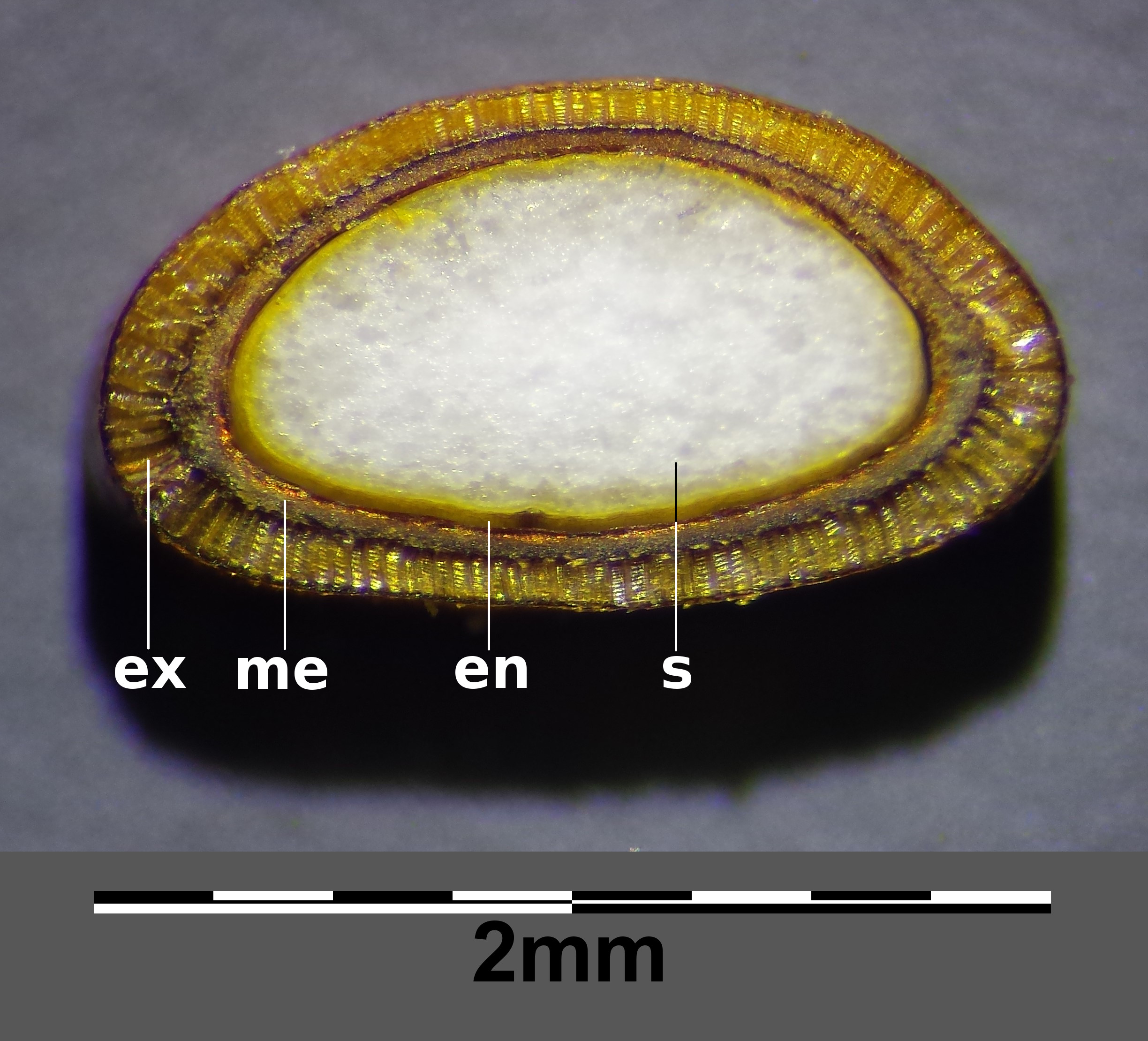 Achene (cross section) ex = exocarp me = mesocarp en = endocarp s = seed Taxonym: Bolboschoenus maritimus s. str. ss Fischer et al. EfÖLS 2008 ISBN 978-3-85474-187-9 Location: pond in Leopoldau, Vienna-Floridsdorf - ca. 160 m a.s.l. Habitat: shore of a pond